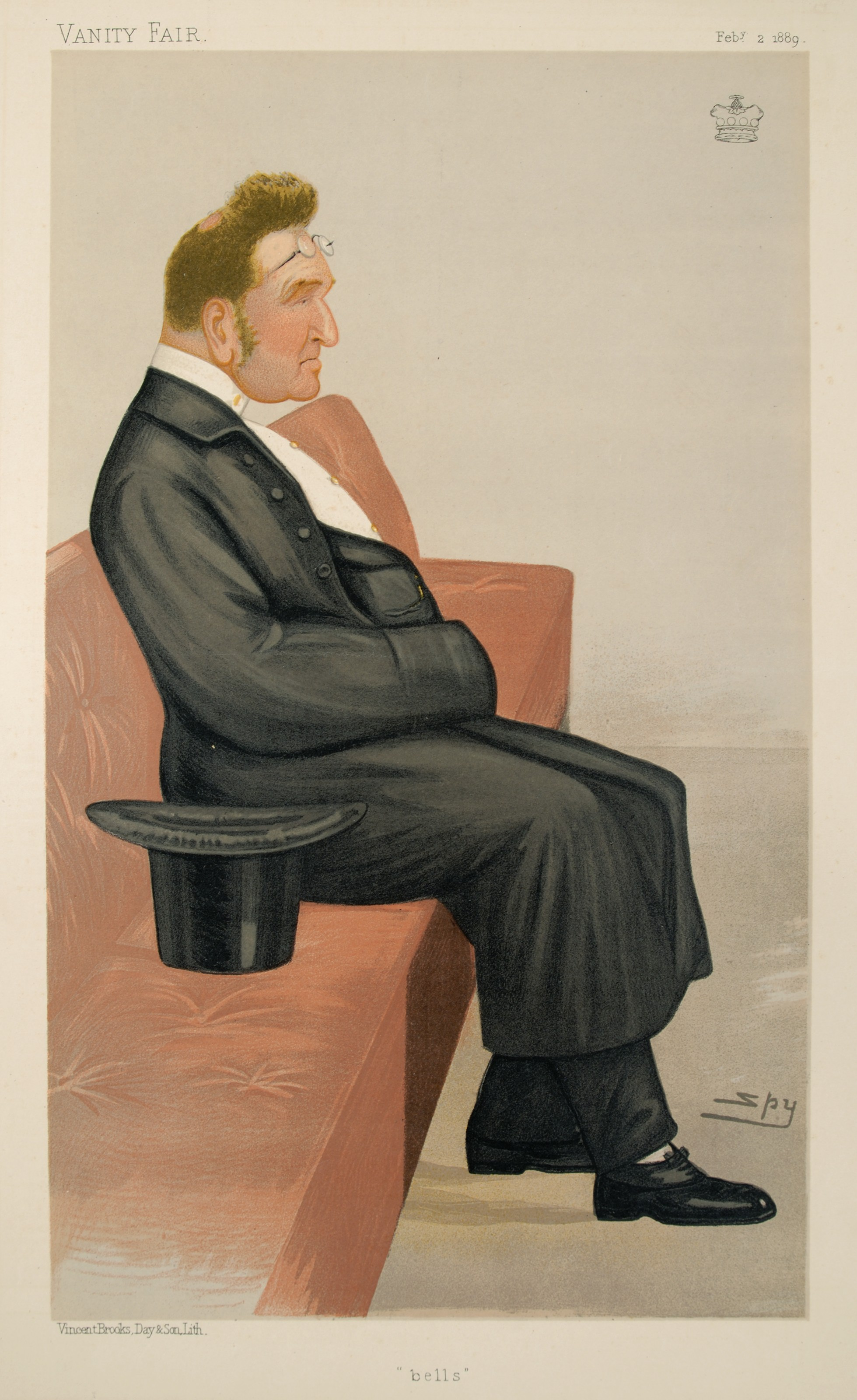 Statesmen No. 559: Caricature of Edmund Beckett, 1st Baron Grimthorpe. Caption read "Bells".